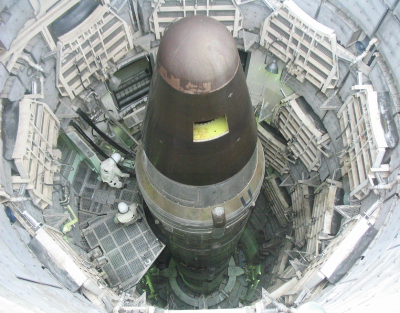 An ICBM loaded into the silo of the Titan Missile Museum in Tucson, AZ. August 2005.